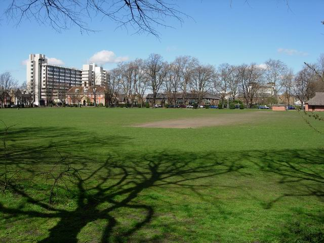 Fairfield Western half of Fairfield - 4 football pitches and a cricket pitch close to the middle of Kingston. Also occasionally lives up to its name. In the background, from left to right - a large office block, Kingston Library and the Kingfisher swimming pool.